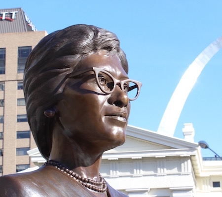 This is a close-up photo of the bronze figure that stands six feet tall. It is permanently installed in Kiener Plaza. The St. Louis Arch is seen in the background.